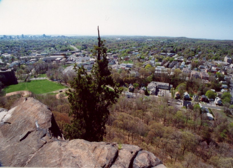 West Rock. New Haven, Connecticut. 2003. Paul Gagnon